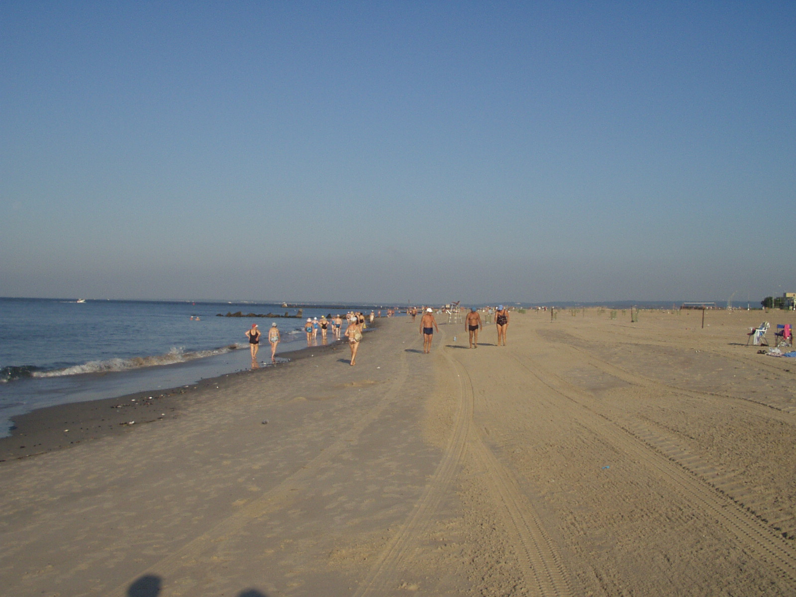 Coney Island Beach